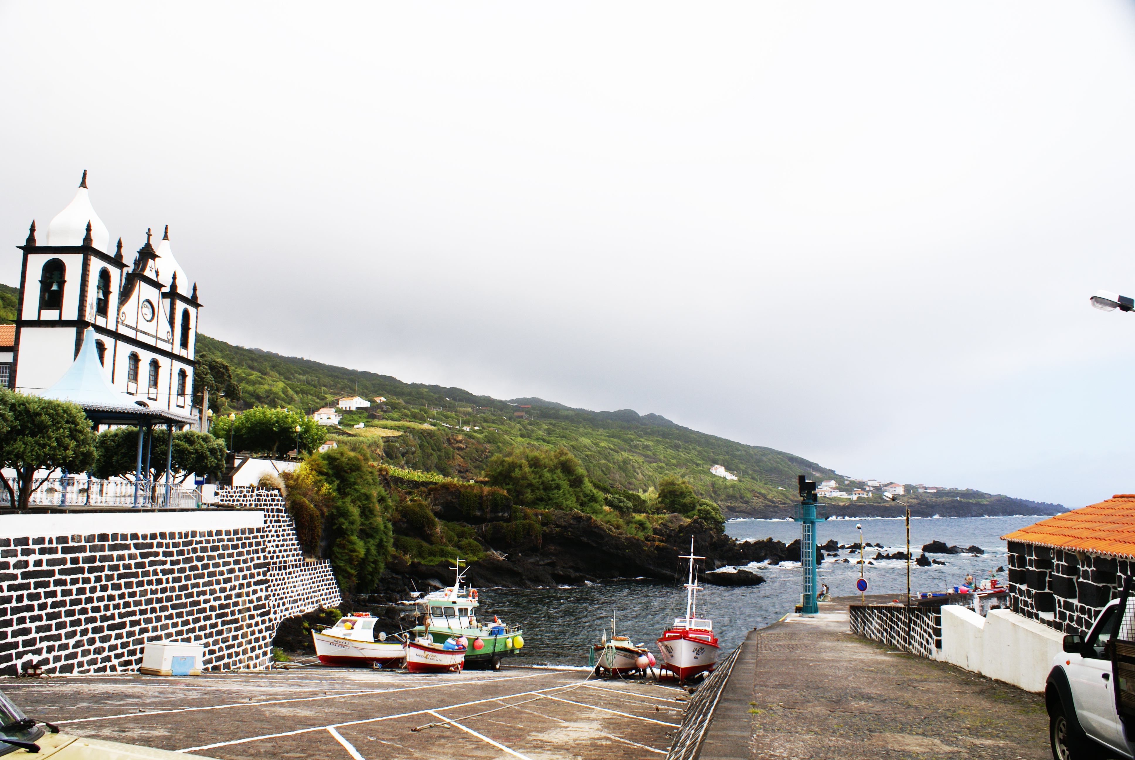 Porto piscatório de calheta de Nesquim, Lages do Pico, ilha do Pico, Açores, Portugal